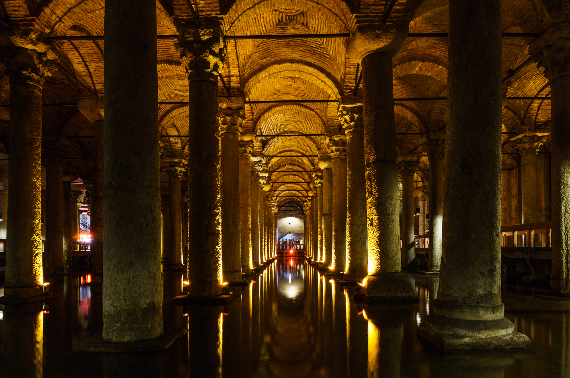 Basilica Cistern (tr. Yerebatan Saray), Istanbul.